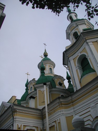 The orthodox church of Pärnu